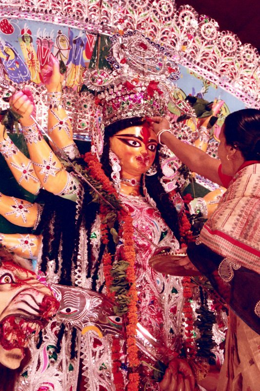 Durga idol at a puja pandal in Siliguri, West Bengal. On the last day of the festivity (Dashami) women offer flowers, vermilion and sweetmeats to the deity as homage and as parting token. They then share this amongst other women and devotees. Married women apply this vermilion to their forehead as a sign of prosperity.